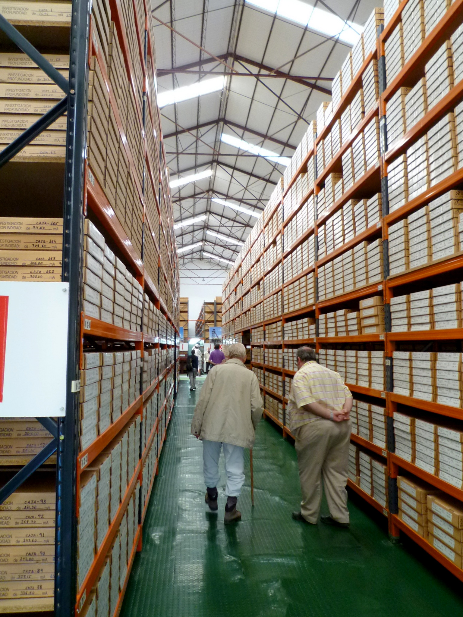 Geological and Mining Institute of Spain Drill core repository, Peñarroya, Cordoba, Spain.